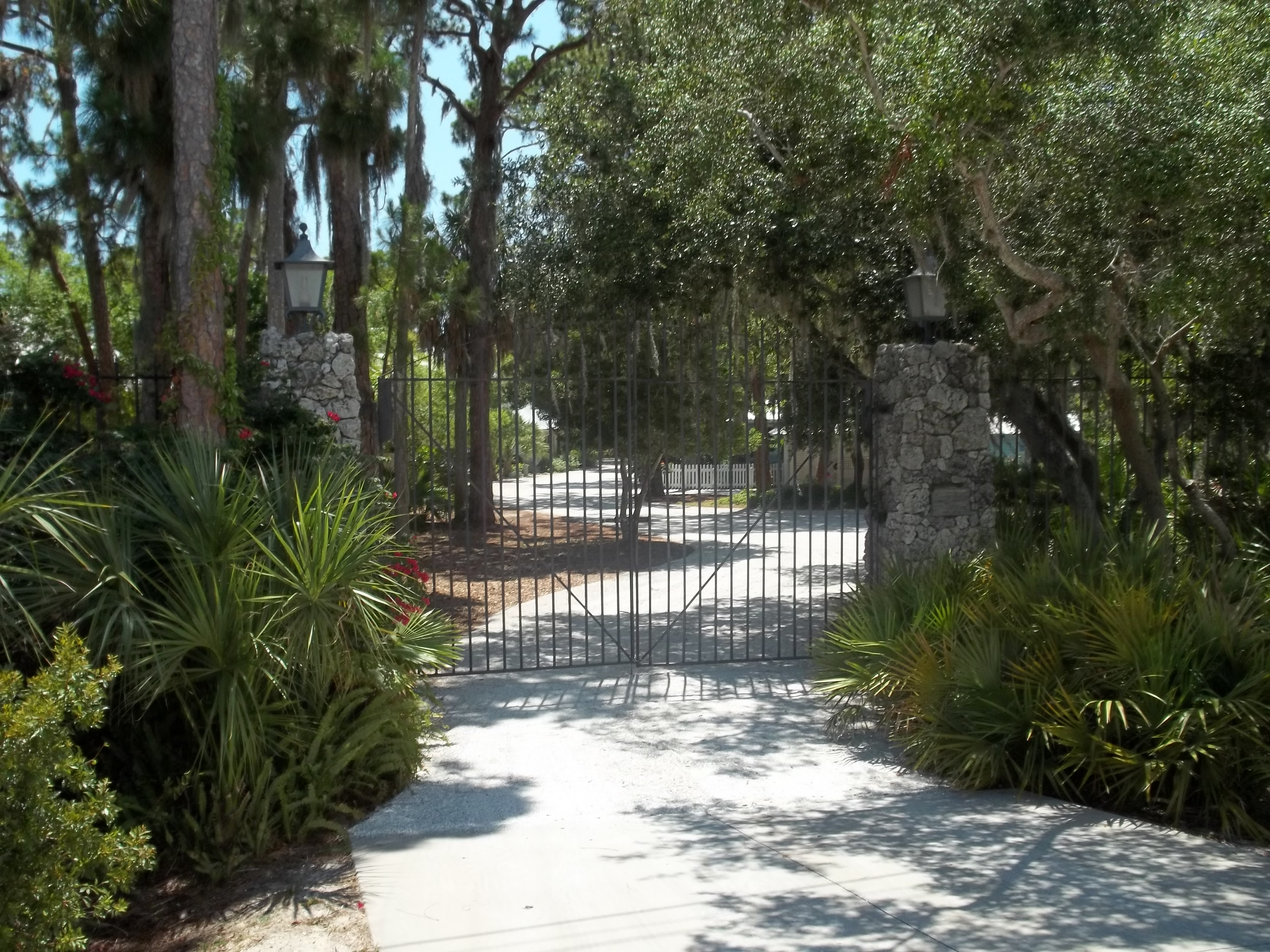 Venice, Florida: Eagle Point Historic District Object location27° 06′ 31″ N, 82° 26′ 46″ W